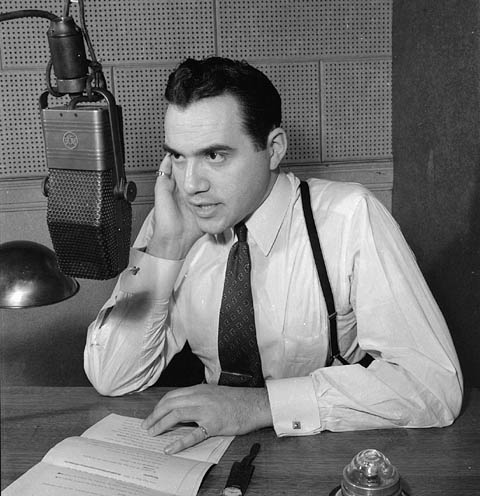 Commentator Lorne Greene broadcasting over the C.B.C. national network